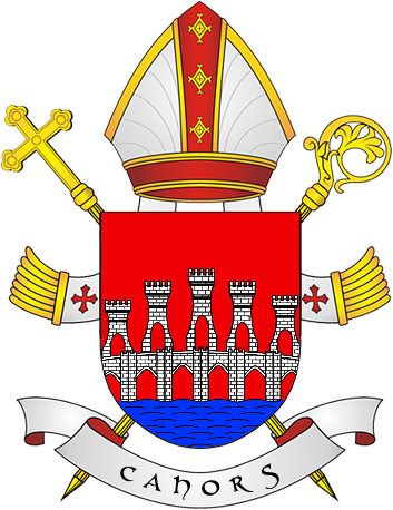 Coat of Arms of diocese of Cahors in France.